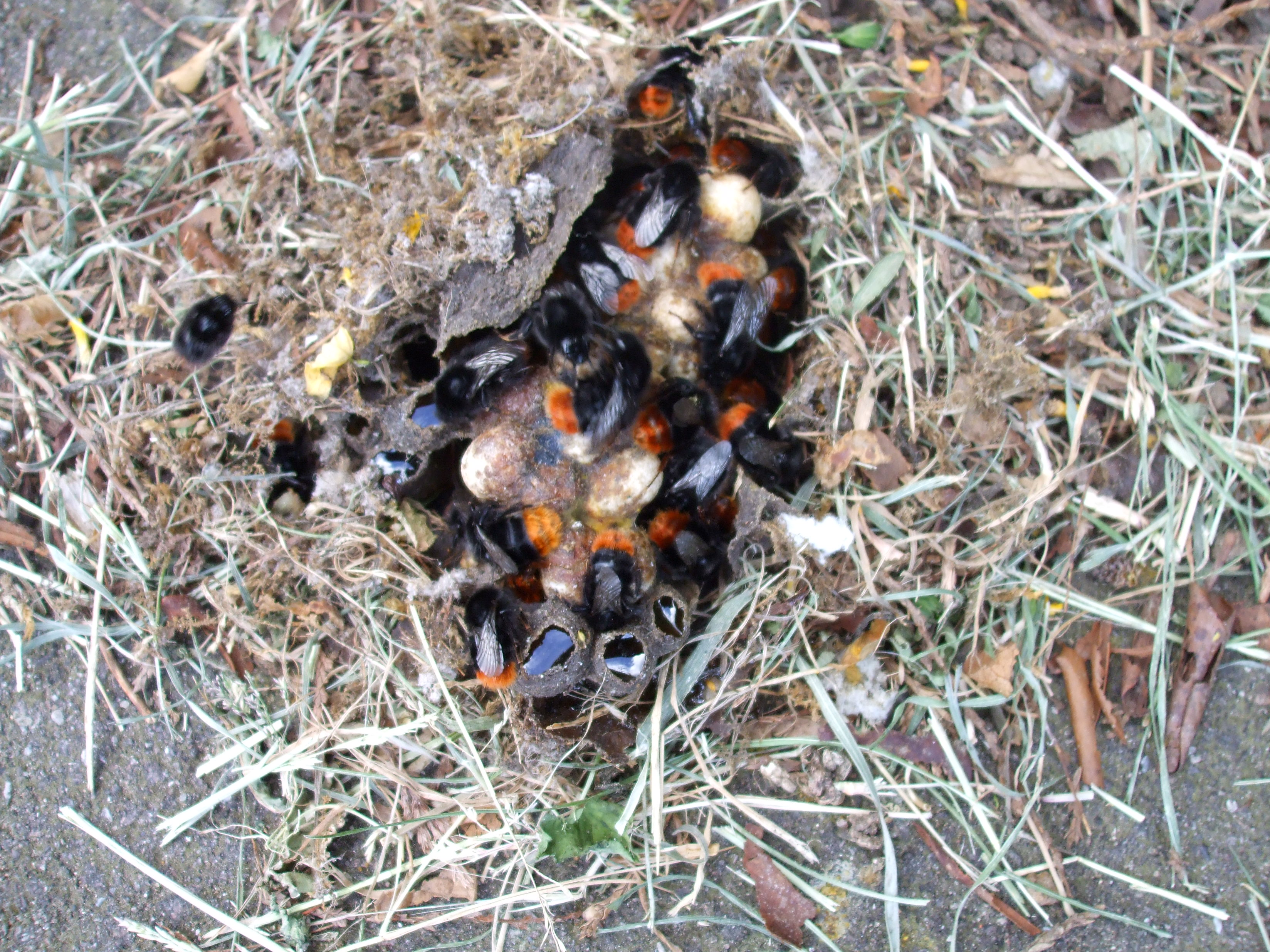 Red-tailed bumblebee nest with visible full honey pots (nectar storing wax pots)